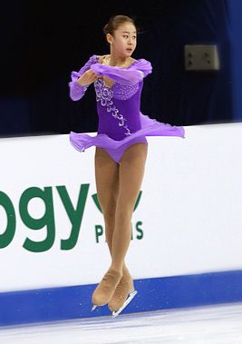 Four Continents Championships 2015 – Ladies (Song Joo Chea KOR – 13th Place)